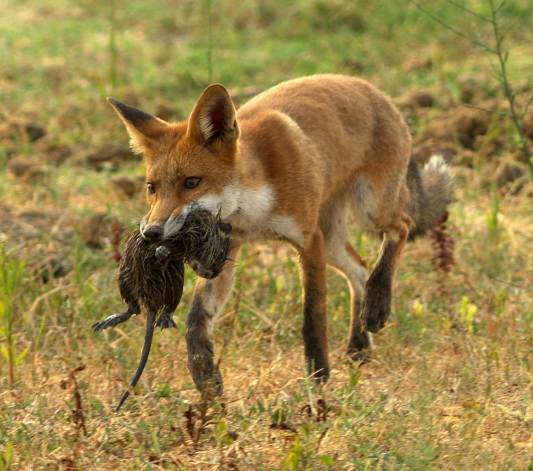 Red fox with nutria, Tivoli-Manzolino oasis, Italy.